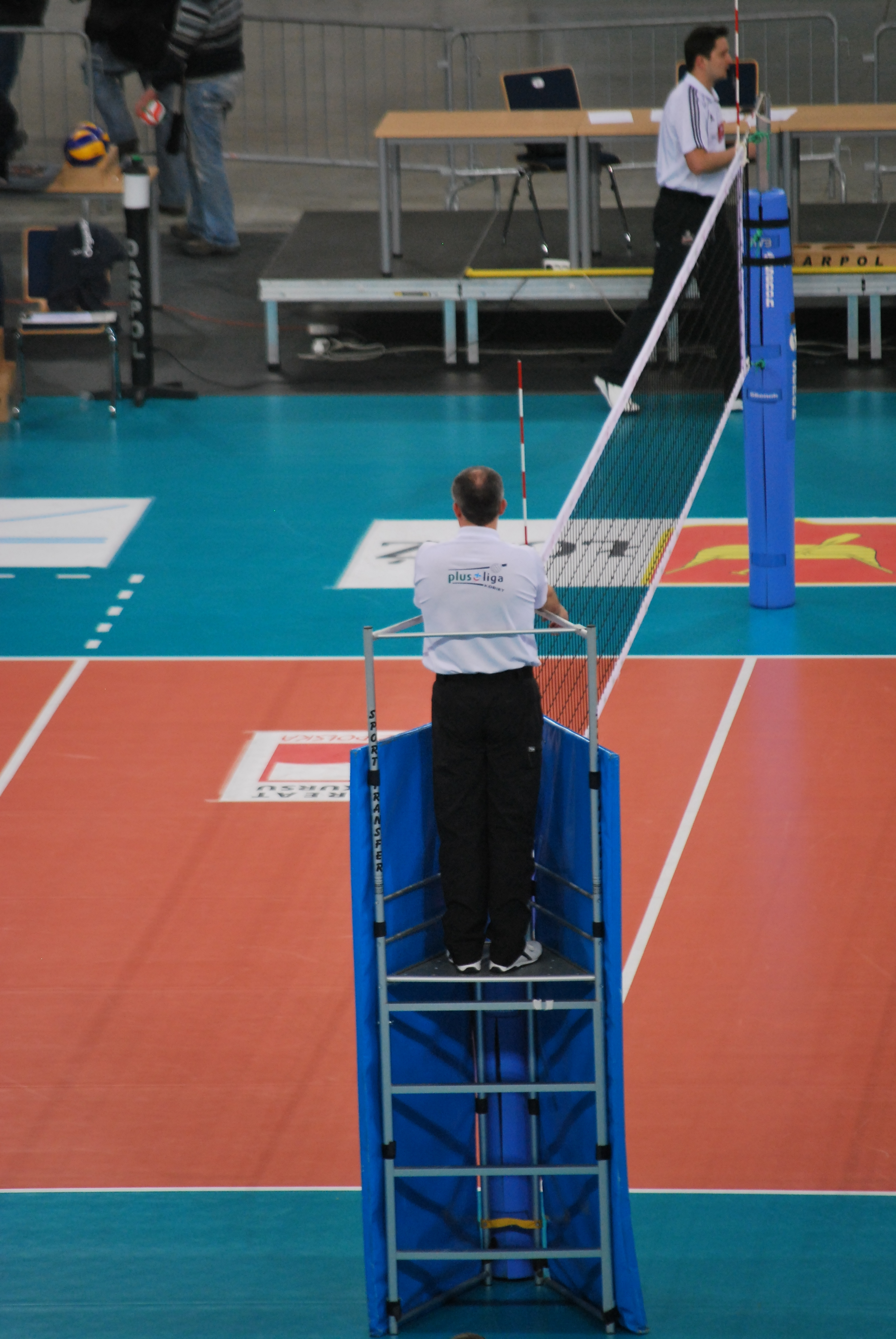 Volleyball referee on his point